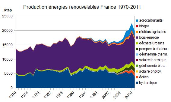 Renewable energy production in France, 1970-2011 data source : "Pégase" database from Ministry of Ecology